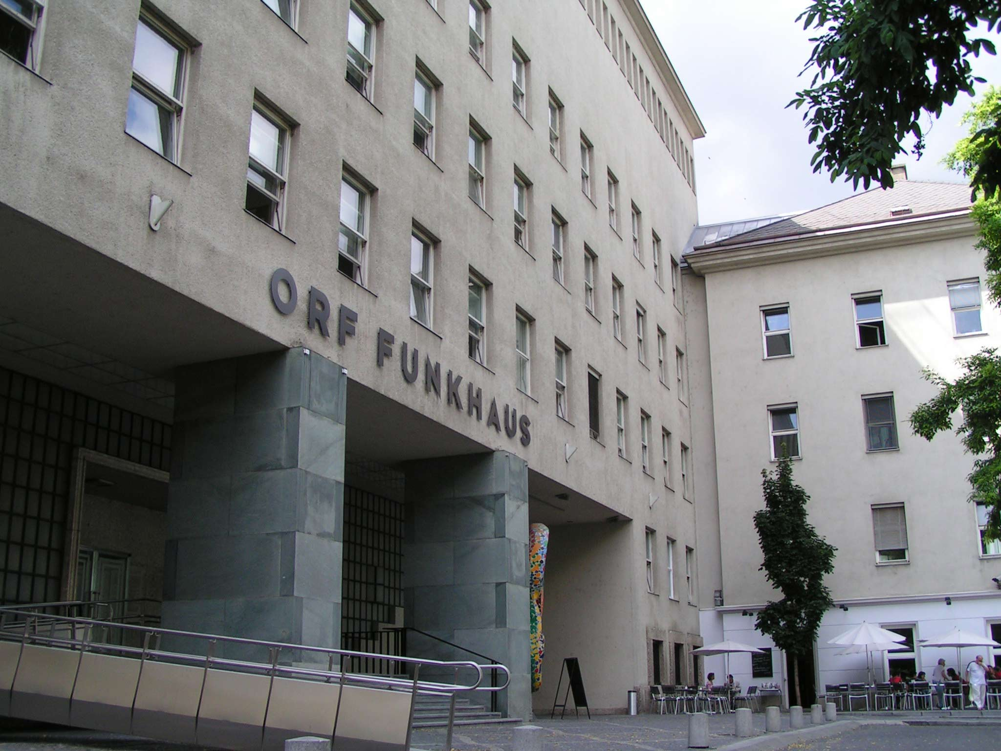 The building of the National Austrian Broadcasting Corporation (ORF) in Vienna in the Argentinierstrasse. Mainly radio programs are broadcasted from here.